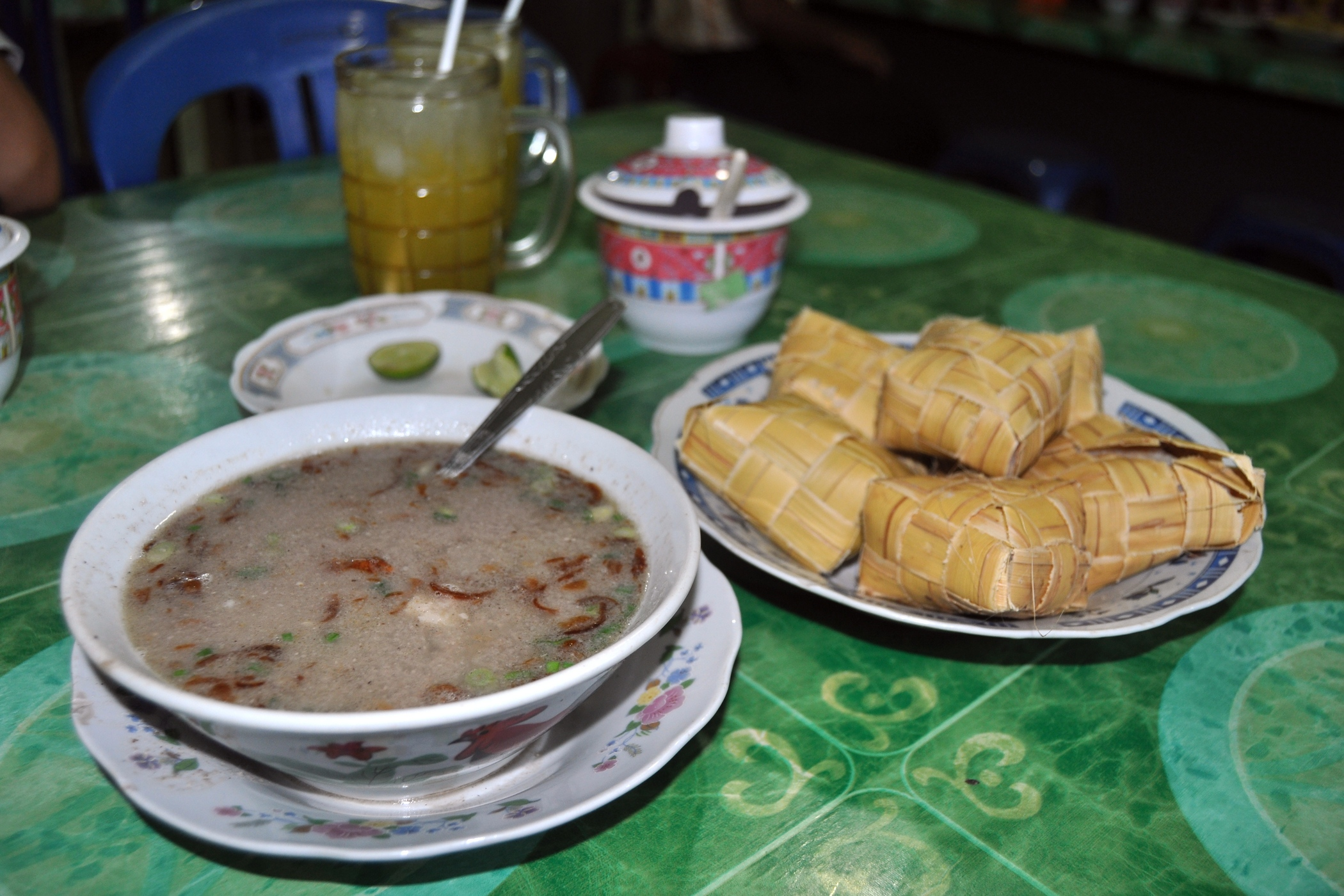 Coto makassar with nipah's leaves ketupat, from Sangatta, East Kalimantan, Indonesia.